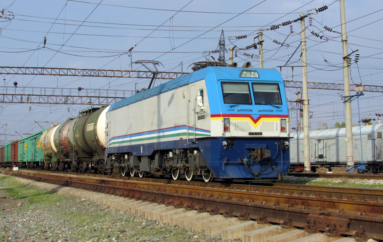 Electric locomotive O'ZEL-0208 with freight train Daliguzar station, Tashkent region, Uzbekistan